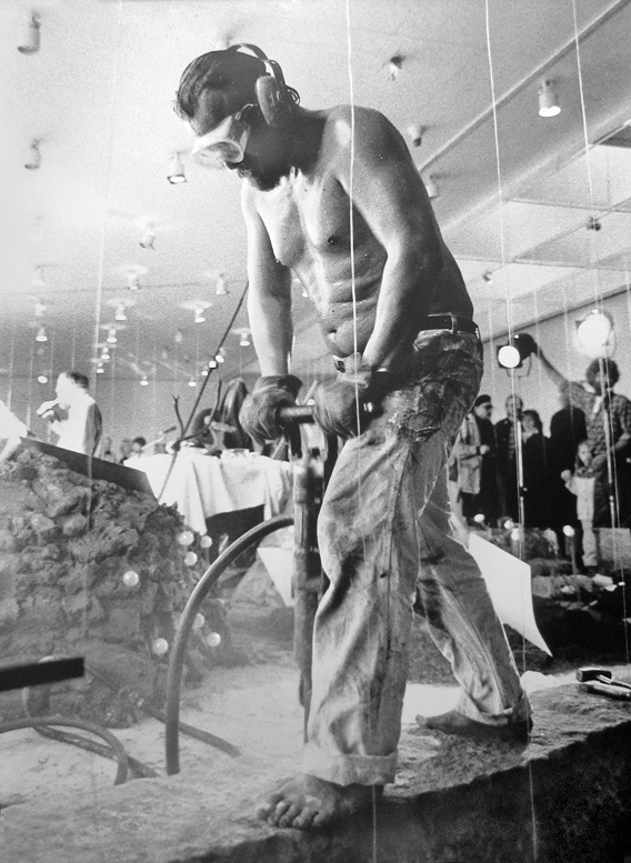 Bjørn Nørgaard with pneumatic drill during a deafening performance in Malmö Arthall 1988.